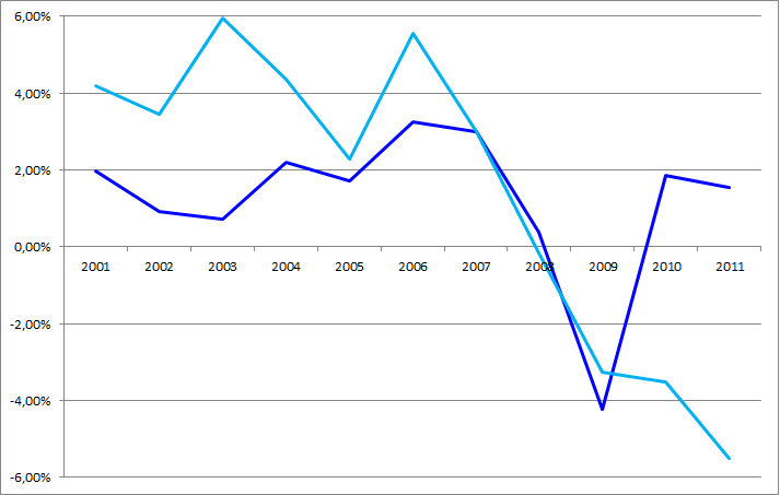 Greece GDP growth (light blue) vis-à-vis Eurozone (dark blue)